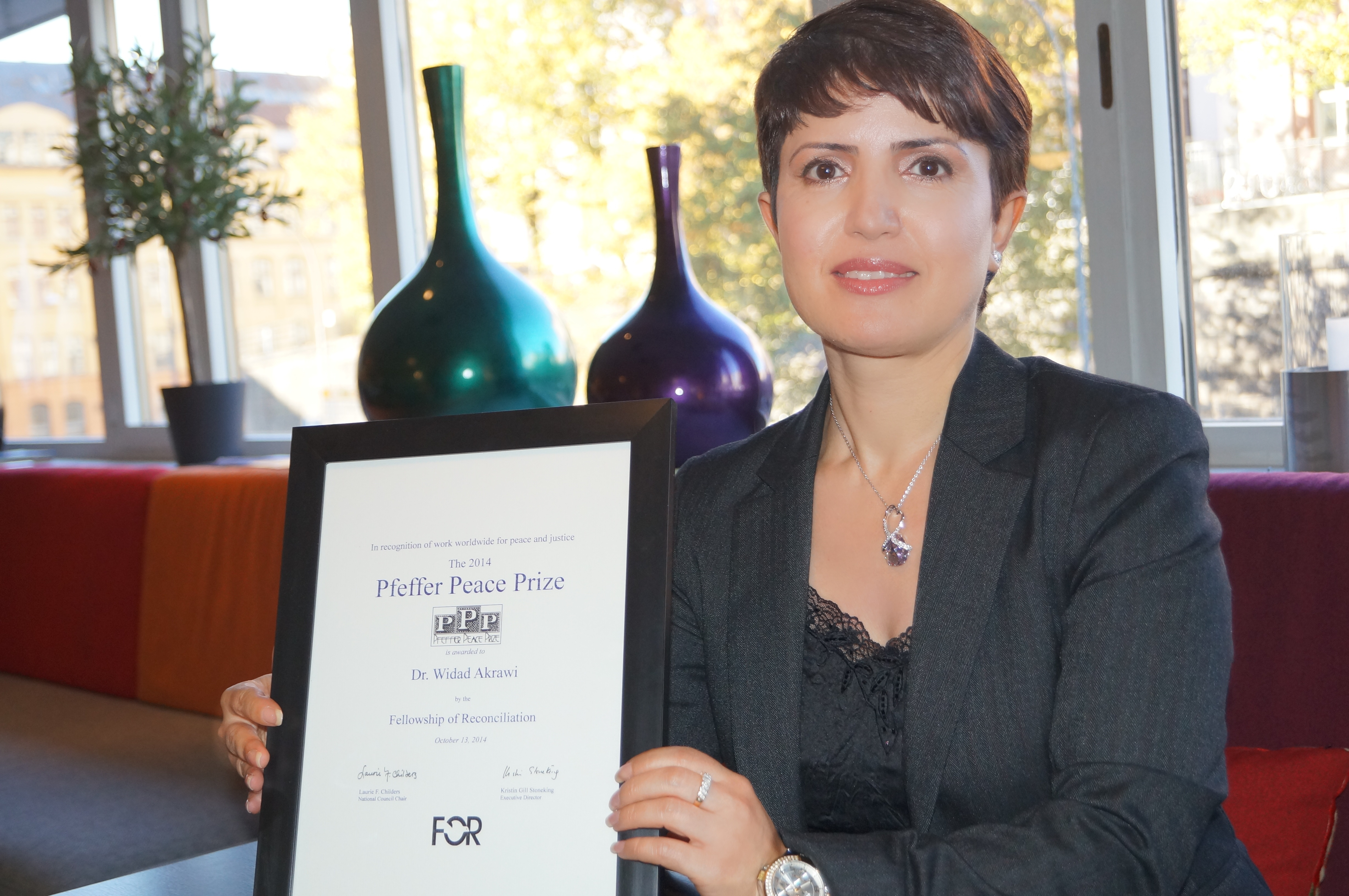 Dr. Widad Akrawi, co-founder of Defend International, has been awarded the 2014 International Pfeffer Peace Award for her worldwide work for peace and justice.